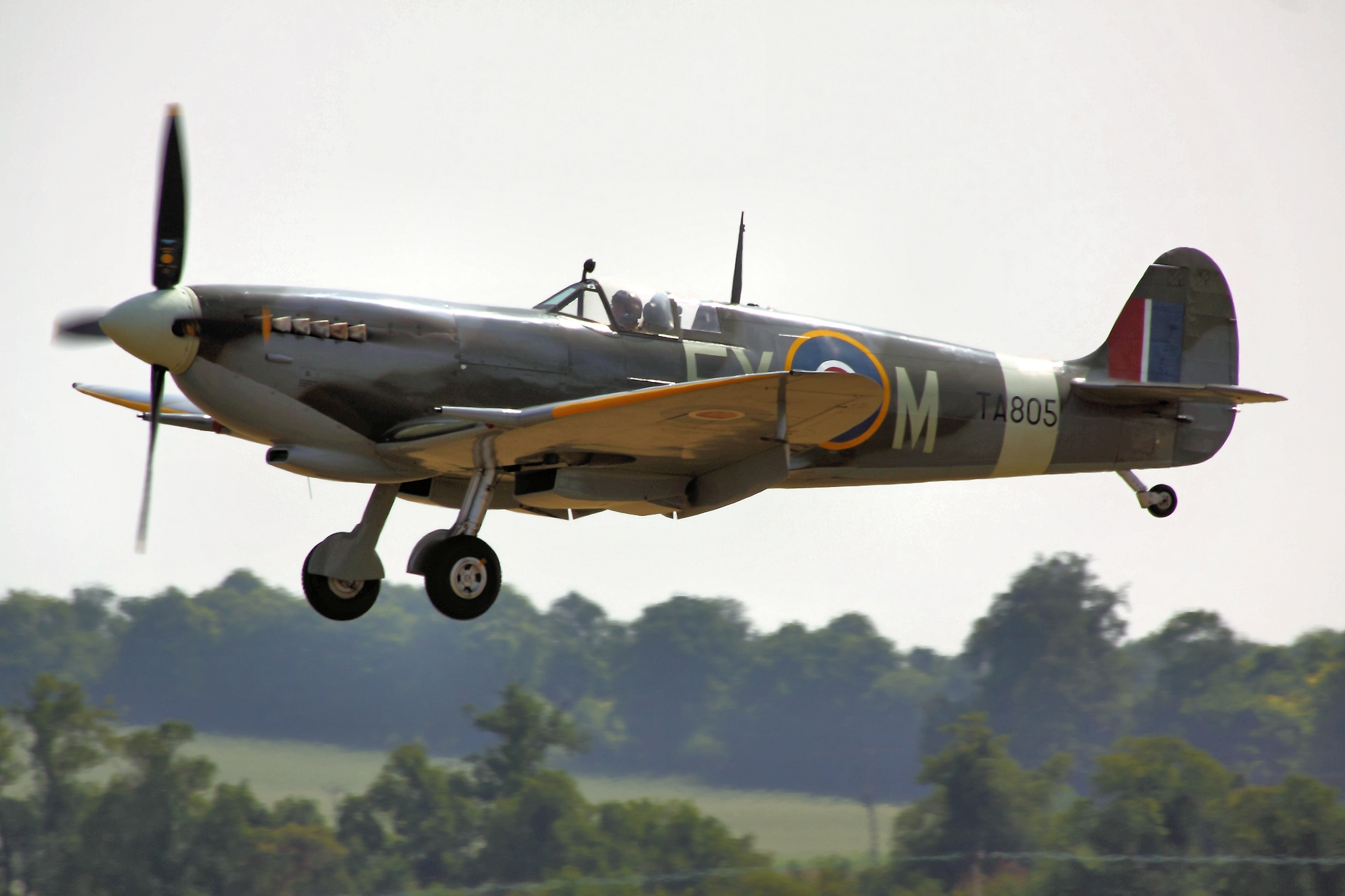 Spitfire - Flying Legends 2013 Duxford